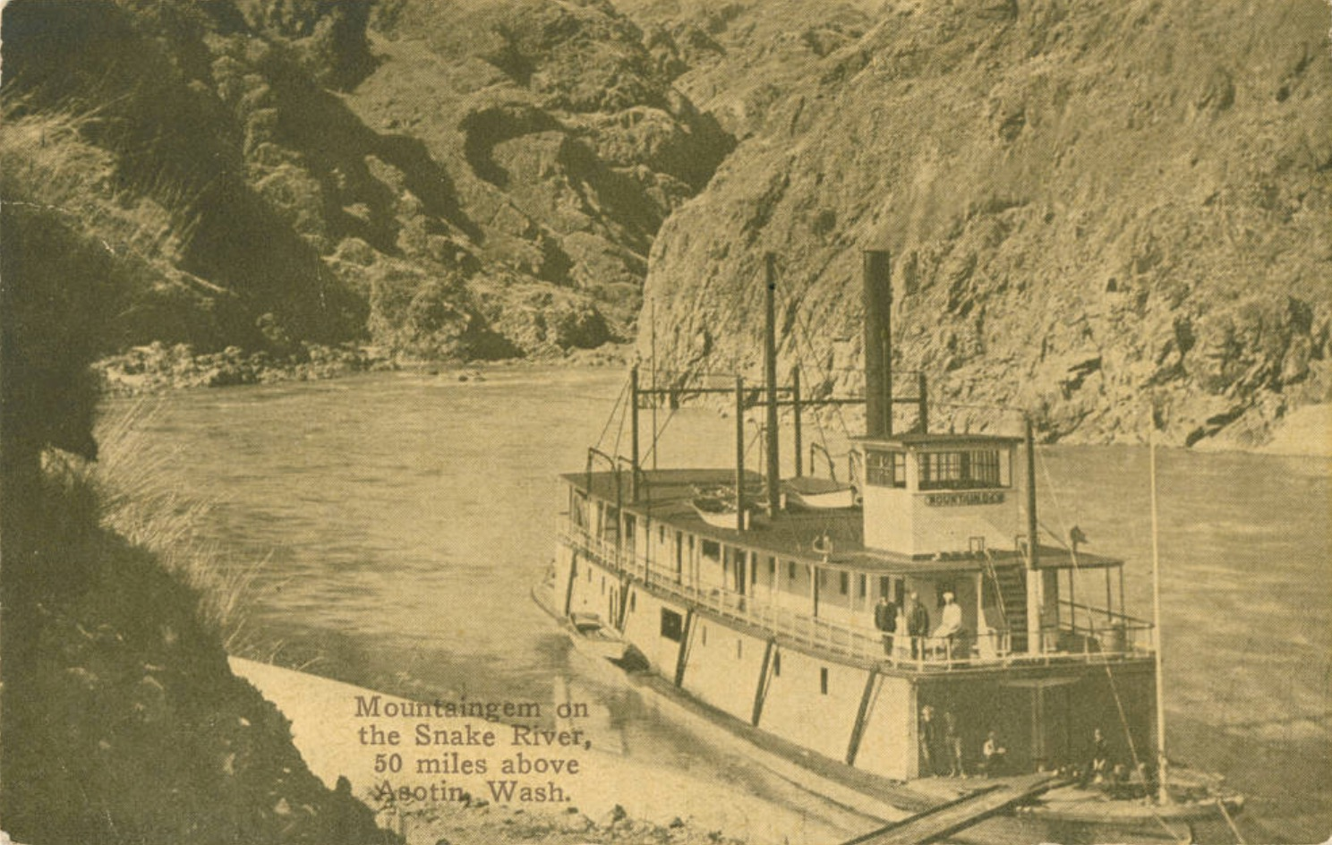 River steamer Mountain Gem on the Snake River, 50 miles above Asotin, Washington, from post card mailed June 25, 1912. This was at the Eureka Bar, near mines in the vicinity. The likely date of the photograph is circa 1906.